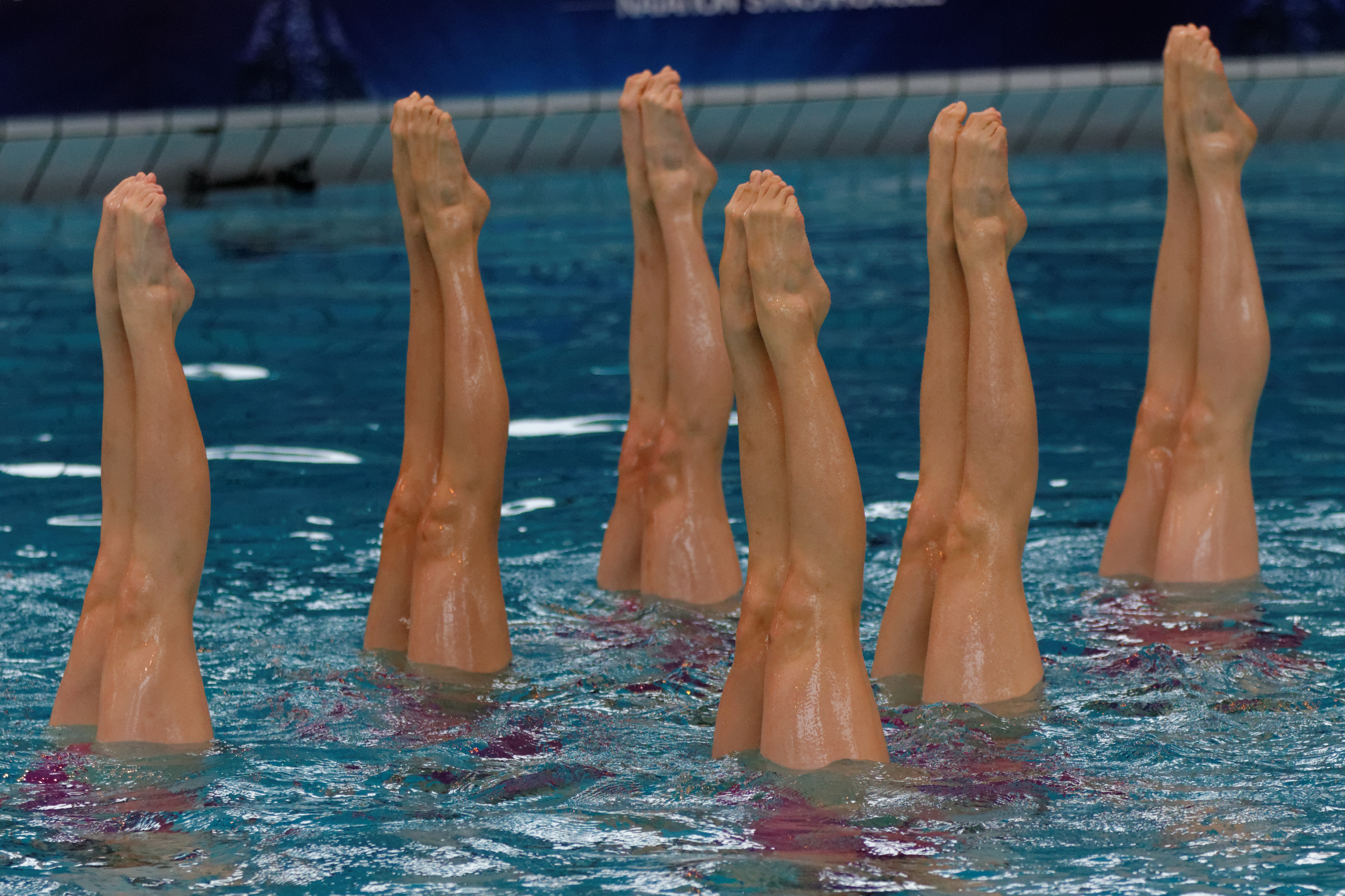 China (Jiangsu), team technical routine, Open Make Up For Ever.